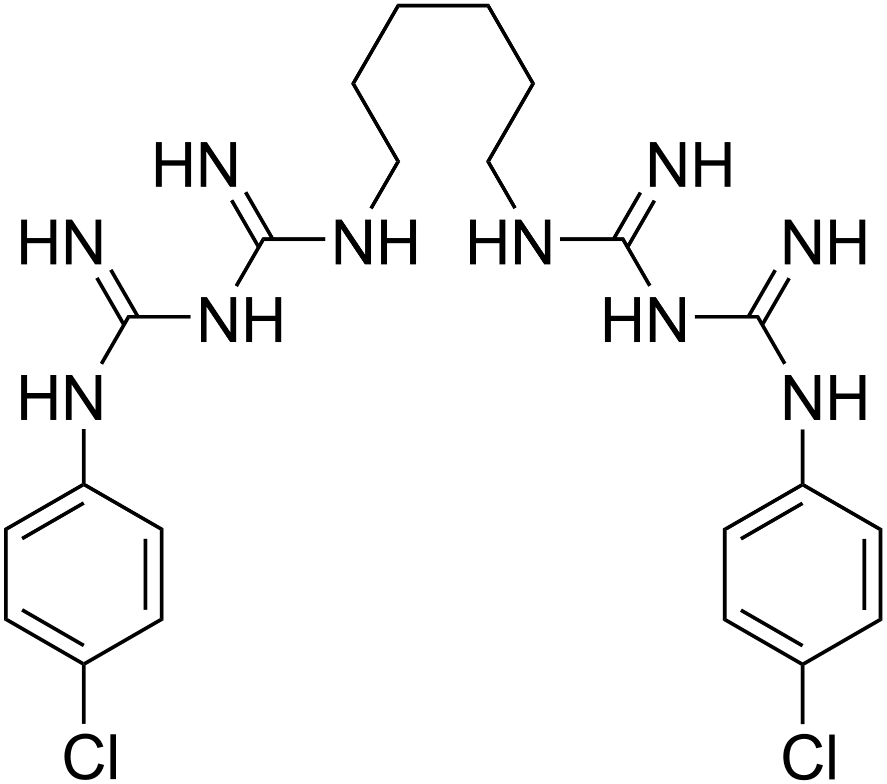 Chlorhexidine structure. The image was drawn using BKchem, Inkscape and GIMP by user Mykhal.